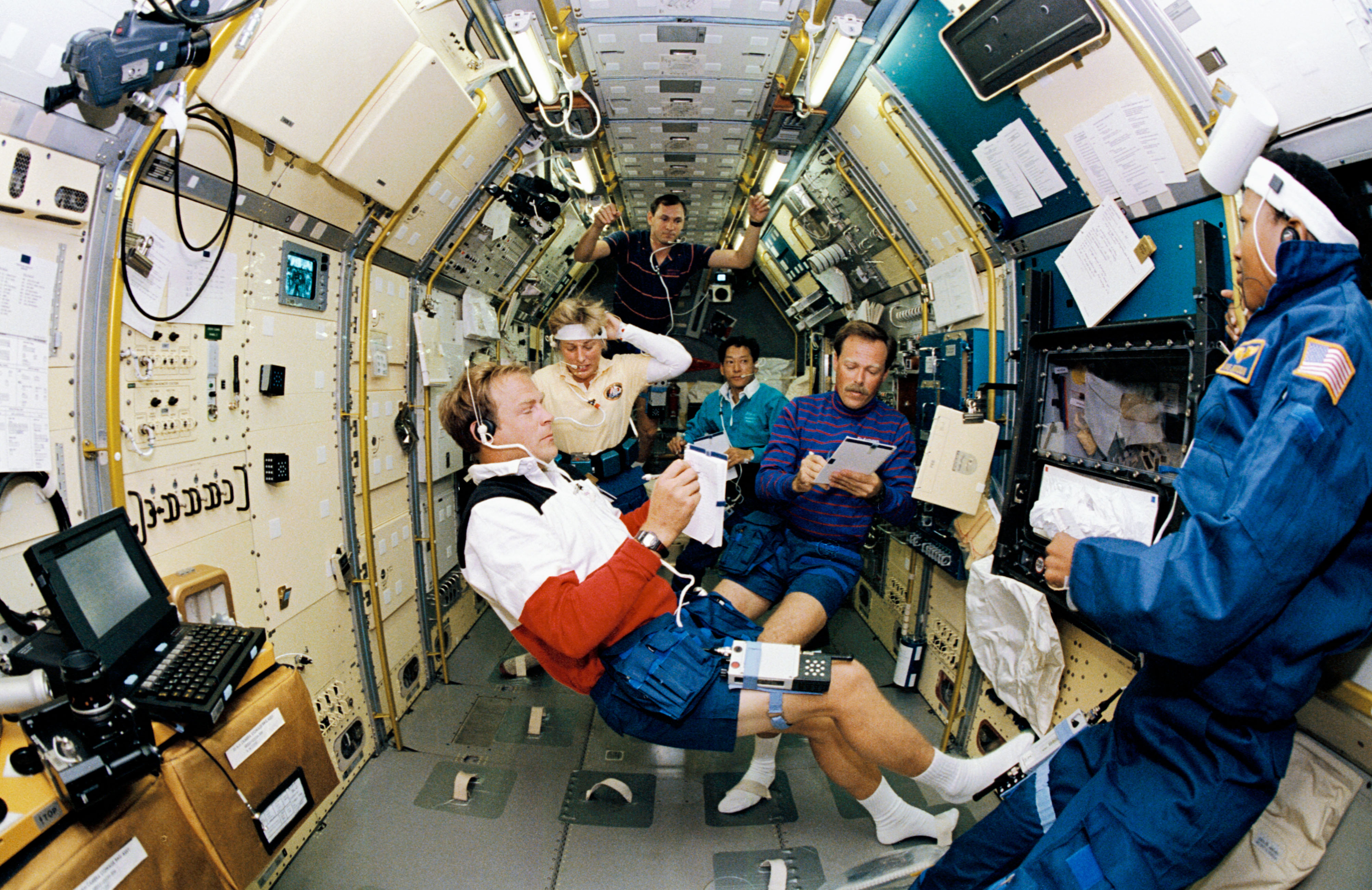 Six of the crewmembers share changeover scene in Spacelab-Japan (SLJ). Mission specialist (MS) Mae Jemison in foreground; beyond her are payload commander (PLC) Mark C. Lee, commander Robert (Hoot) Gibson, MS N. Jan Davis, pilot Curtis L. Brown and payload specialist (PS) Mamoru Mohri.